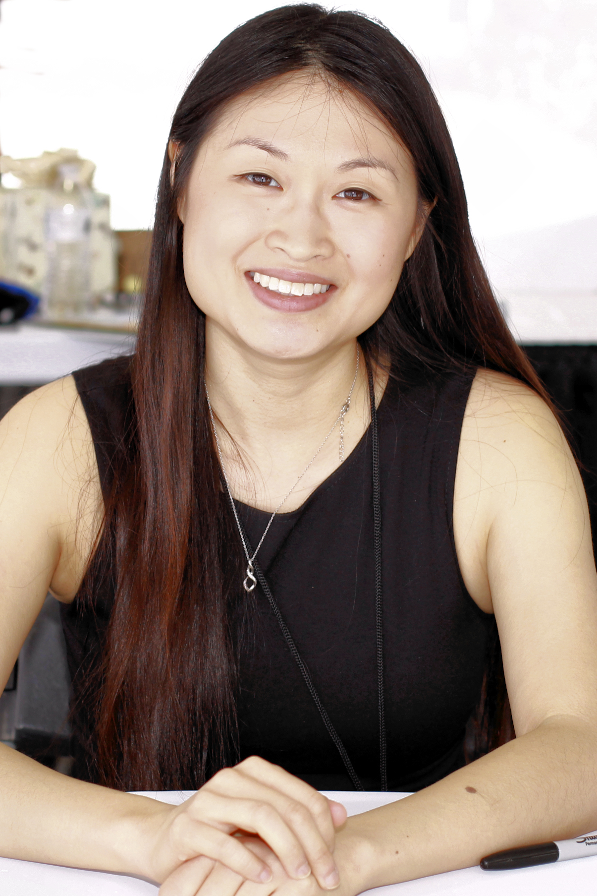 Author Kat Zhang at the 2019 Texas Book Festival in Austin, Texas, United States.